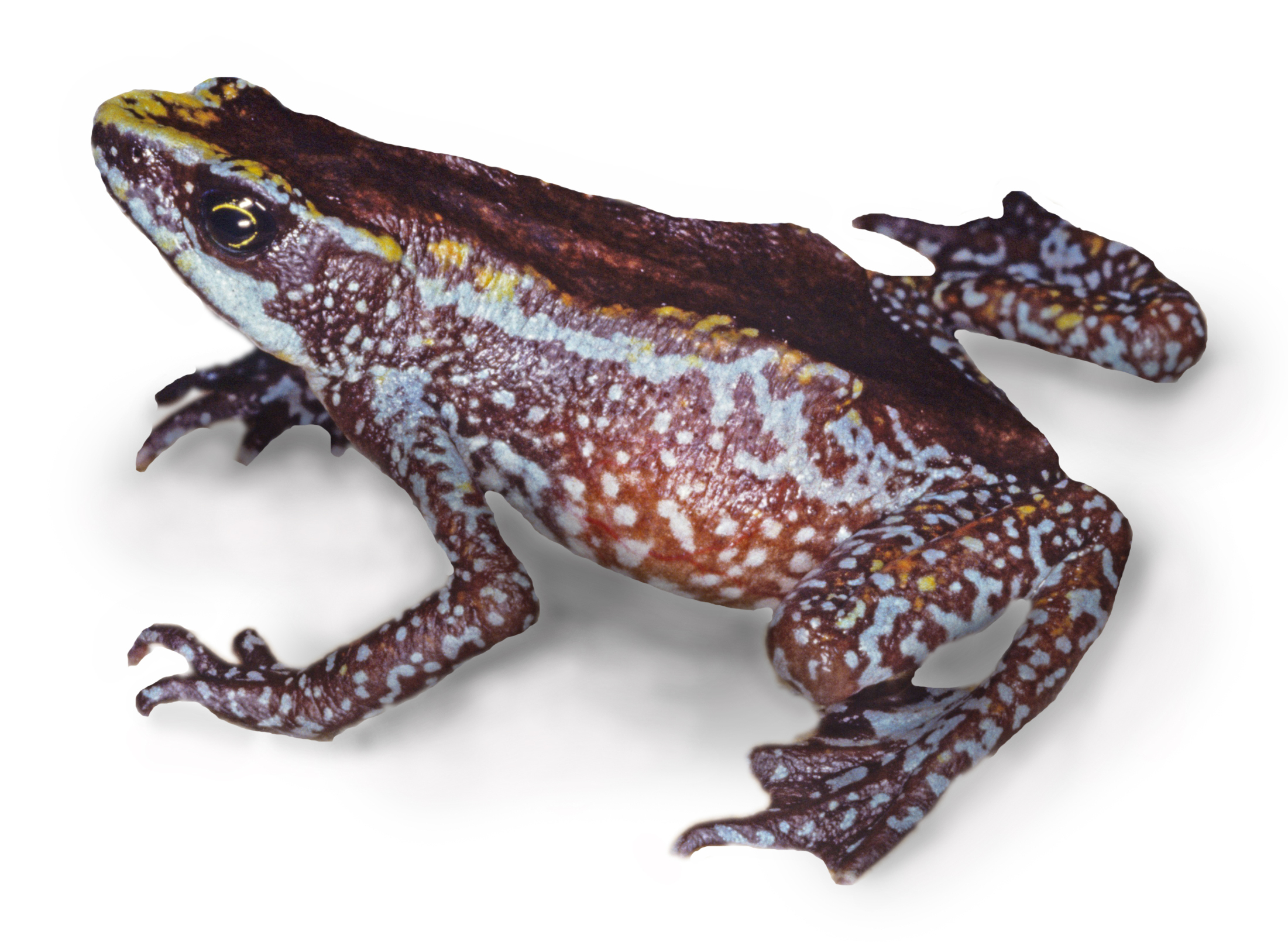 Derived image from public domain photo, Smithsonian Tropical Research Institute